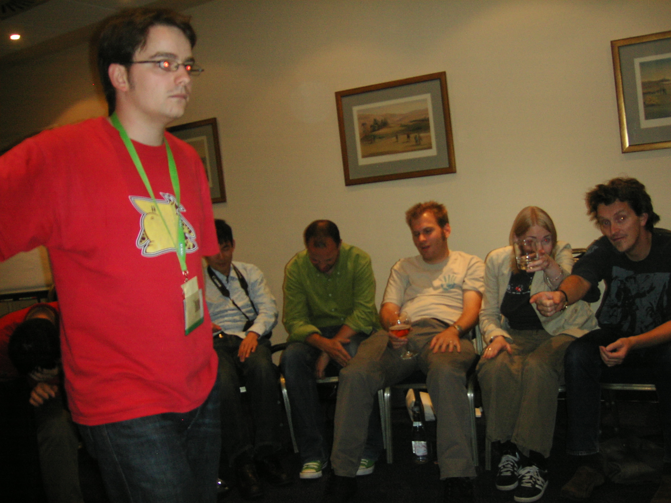 Simon Willison at EuroOSCON. I took this photo while playing Werewolf at EuroOSCON. Simon Willison was the moderator. Suw Charman (pointing at me) and the fellow next to her (Peter Ferne) were the werewolfs. Unfortunately, I was a villager and taking the photo while "asleep". I got killed next, unsurprisingly.